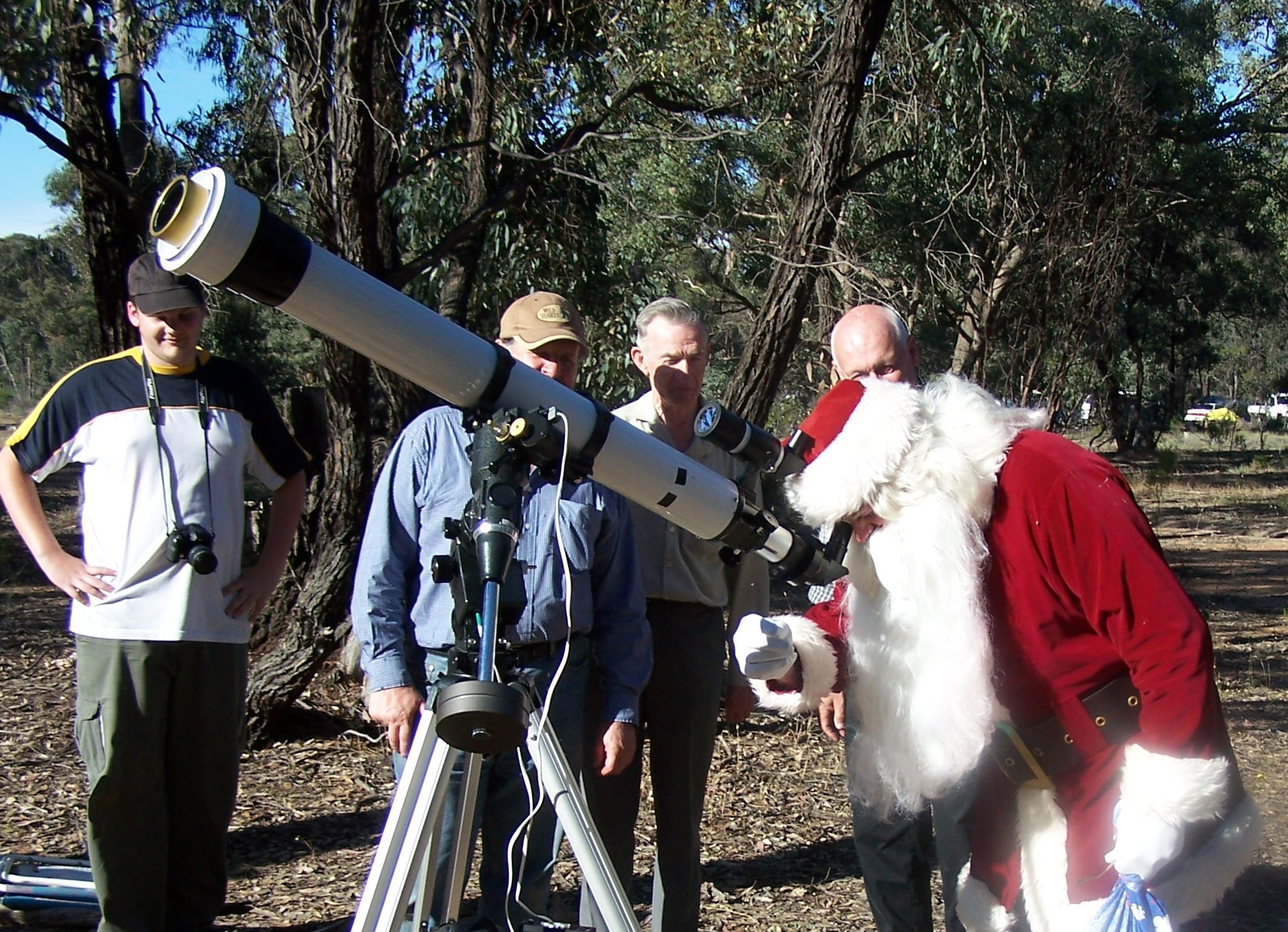 Santa Claus doing some solar observing in Hydrogen-Alpha at the Astronomical Society of Victoria's 2004 Christmas Star-Be-Cue.